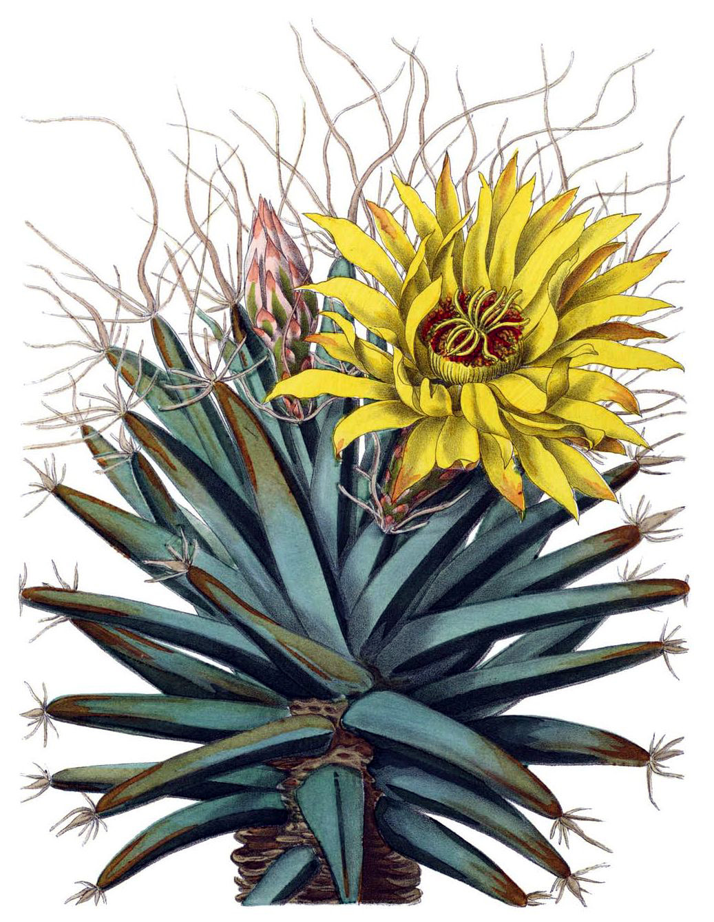 Leuchtenbergia principis